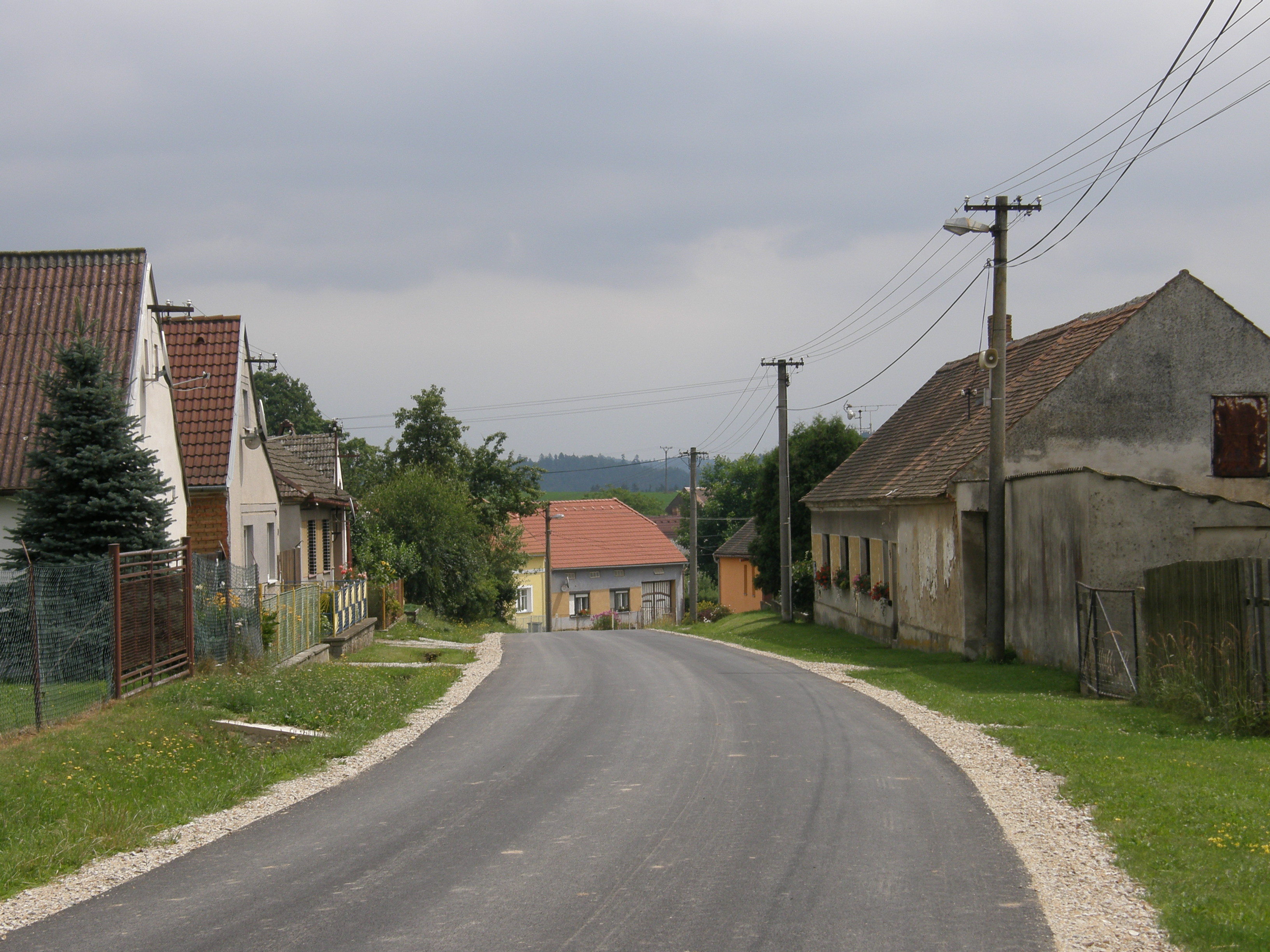 Vesce (Budíškovice) in Jindřichův Hradec District, Czech Republic.